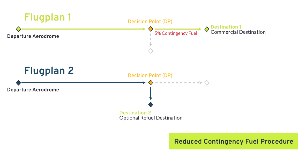 Reduced Contingency Fuel (RCF) Procedure